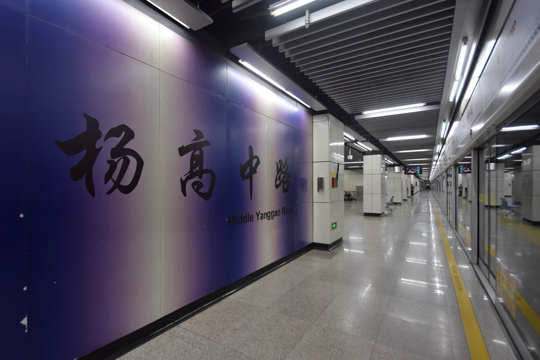 Line 9 Platform of Middle Yanggao Road Station, Shanghai Metro